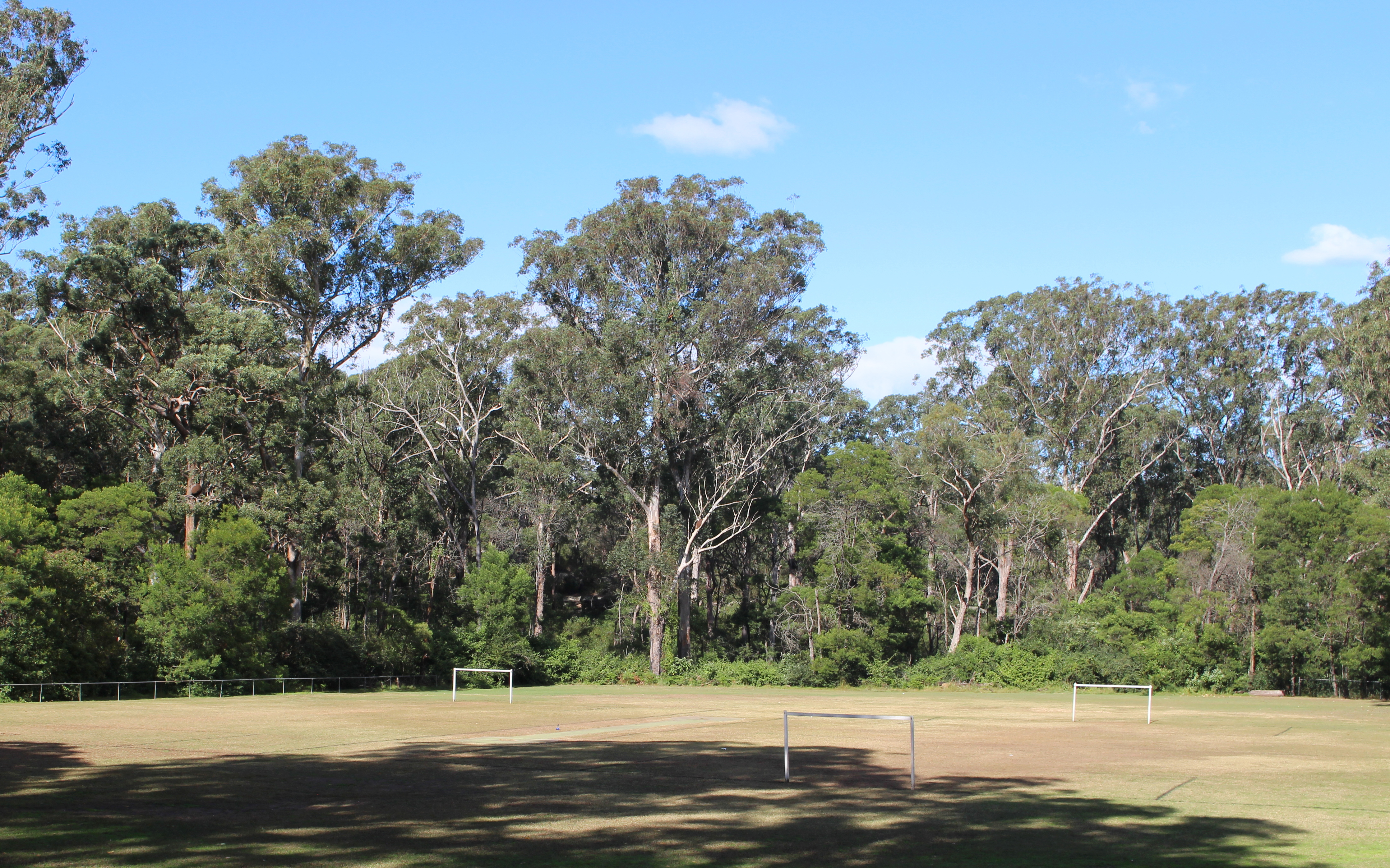 Fiddens Wharf oval -33.783794 151.1456 with Blackbutt (Eucalyptus pilularis) to 40 metres tall